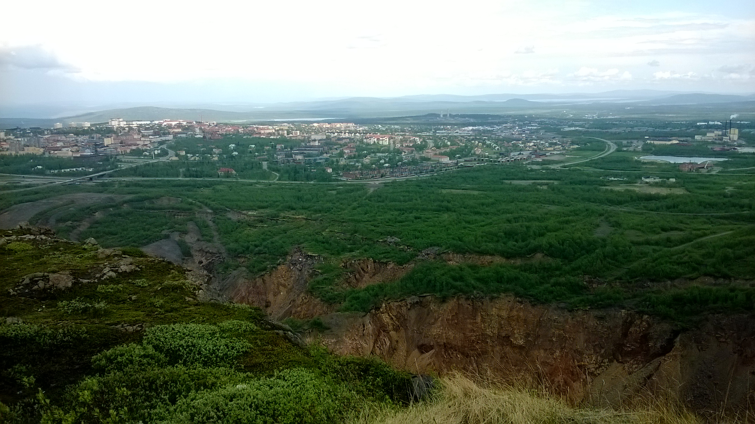 Kiruna från Kirunavaara